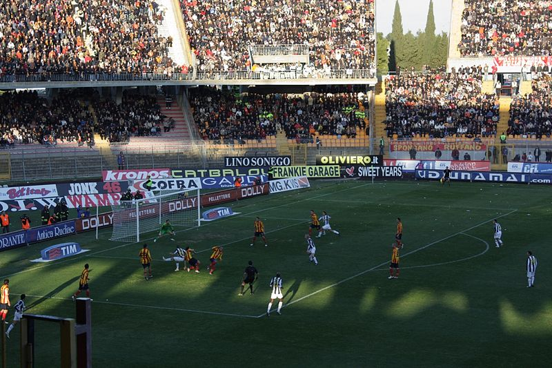 US Lecce v Juventus FC in Via del Mare Stadium (Lecce, Italy).